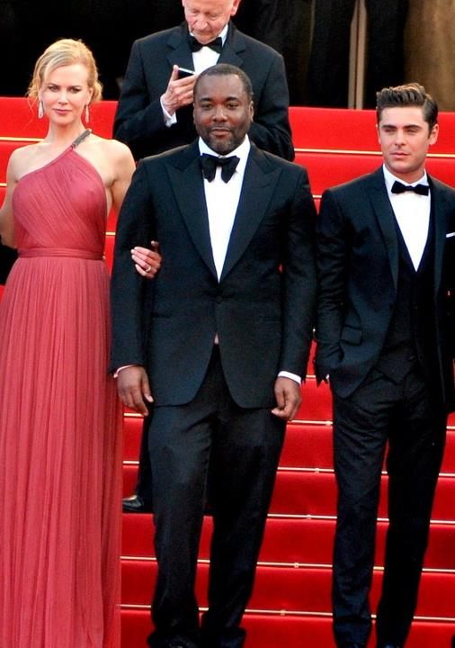 Stars and director of The Paperboy at the Cannes film festival